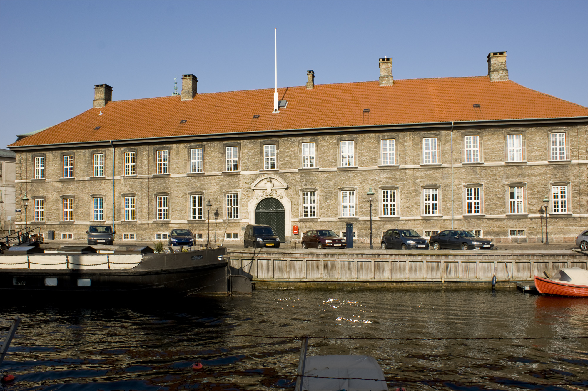 Old house at Slotsholmsen, today used by the education Ministry, Copenhagen, Denmark